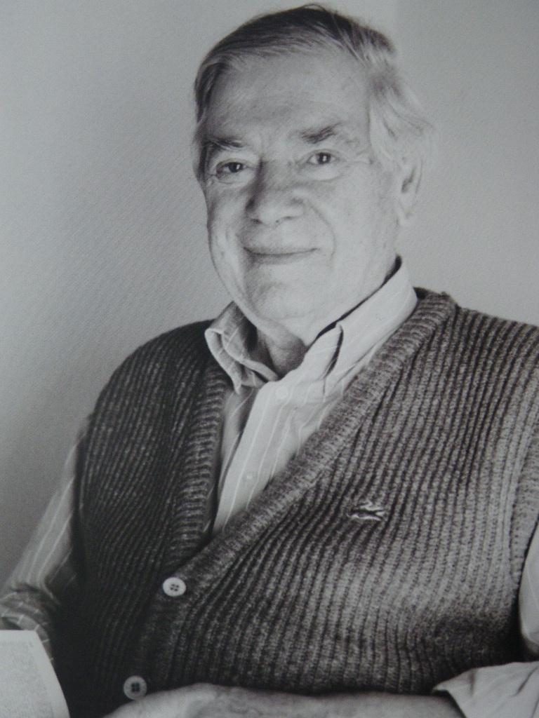 Picture of Leopoldo Presas